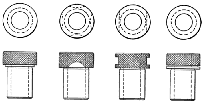 Four different types of features that can be incorporated into smaller renewable bushings for removal with a screwdriver.